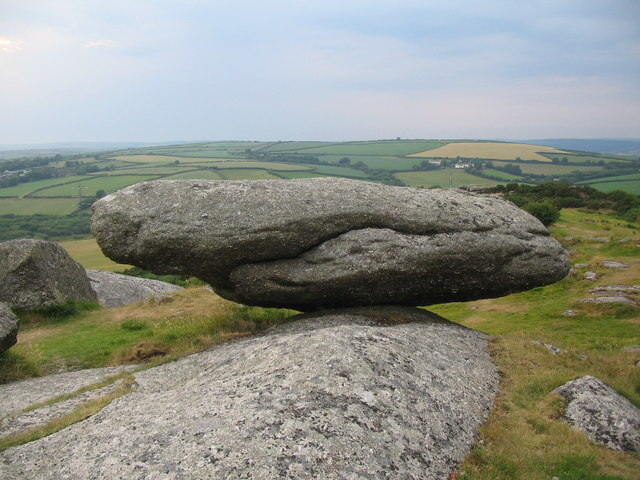 Logan Rock at Helman Tor. A view looking north to the Logan Rock at Helman Tor.